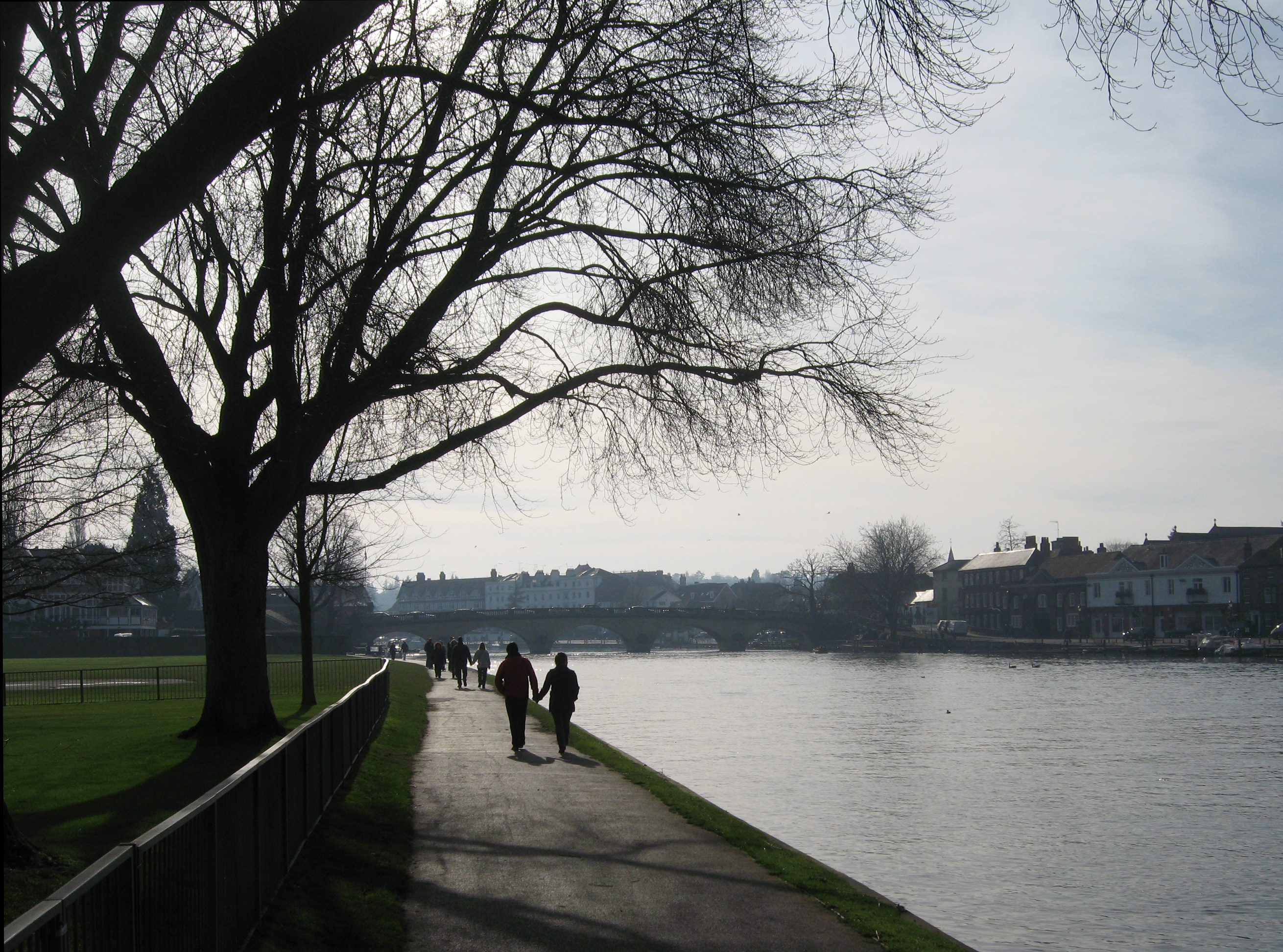 Photo in Henley-on-Thames showing the River Thames, the five arched bridge and Leander Club (to the far left).